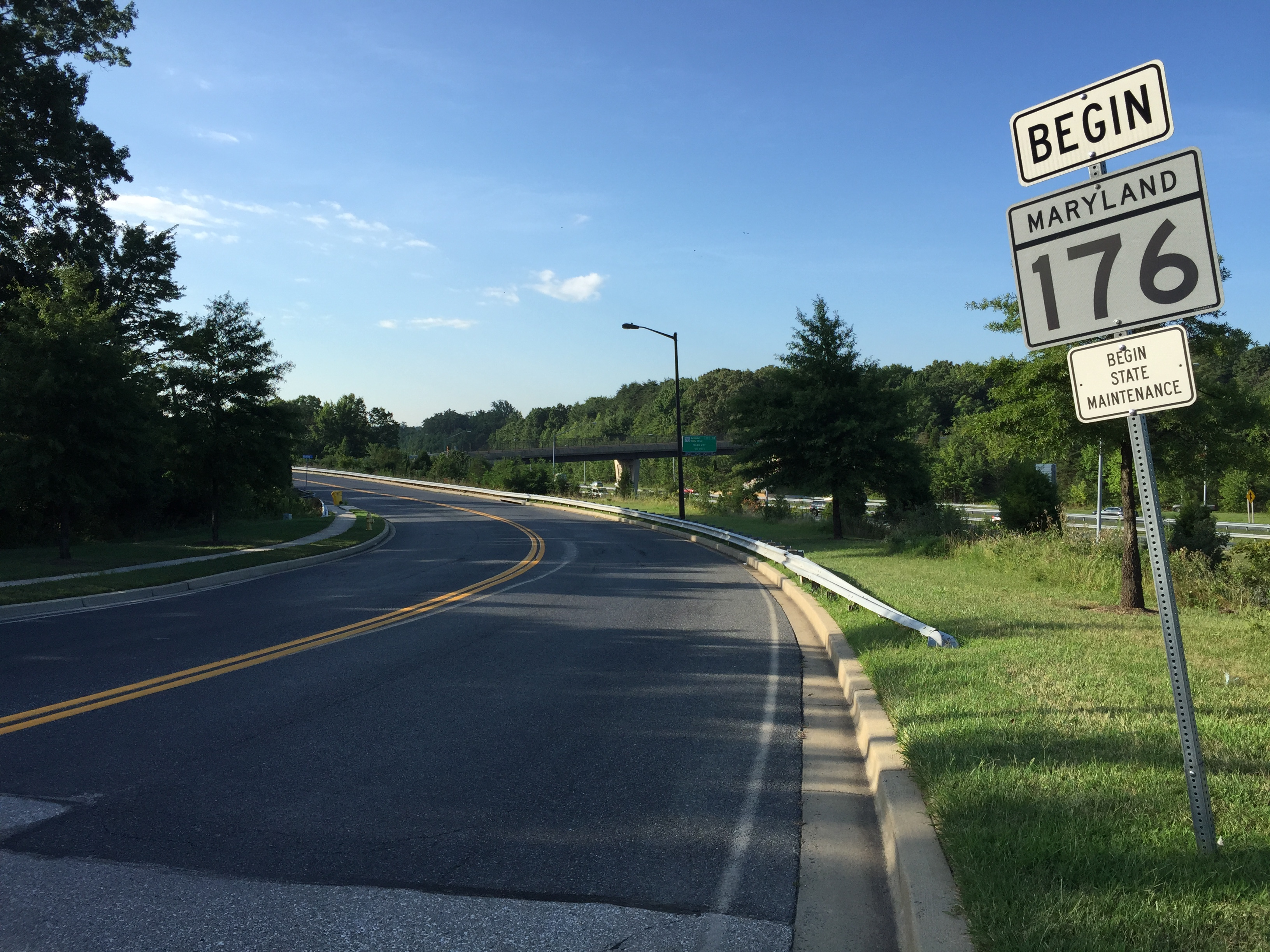 View east along Maryland State Route 176 (Dorsey Road) near Abraham Road in Hanover, Anne Arundel County, Maryland